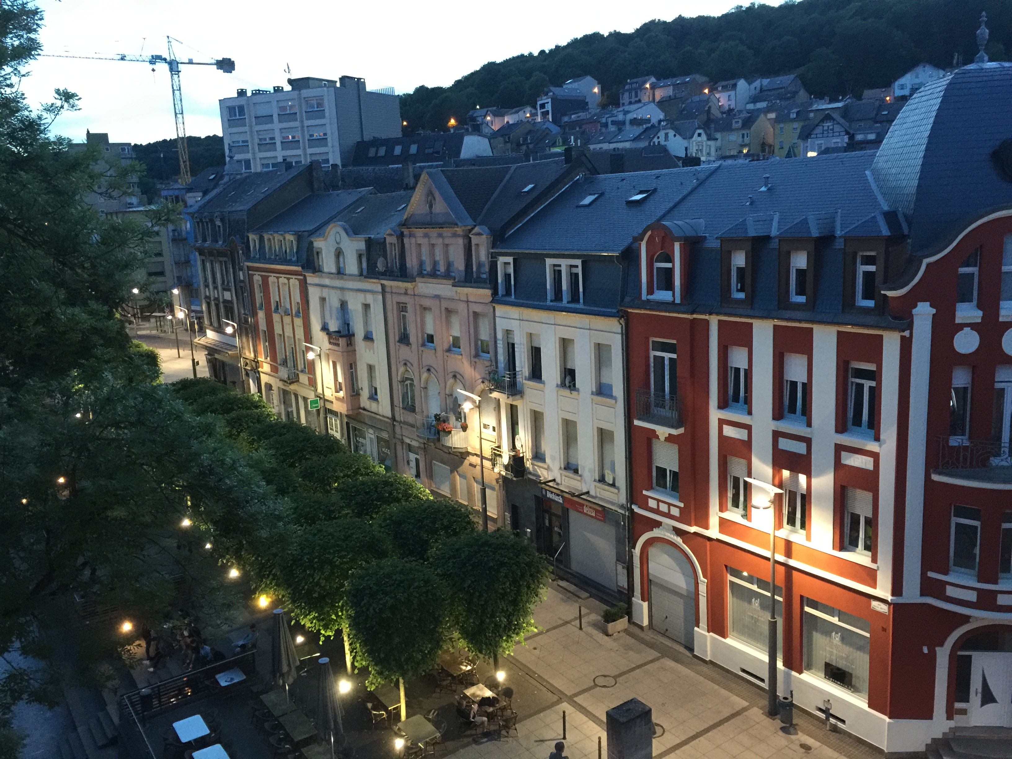 City centre of Differdange, Luxembourg